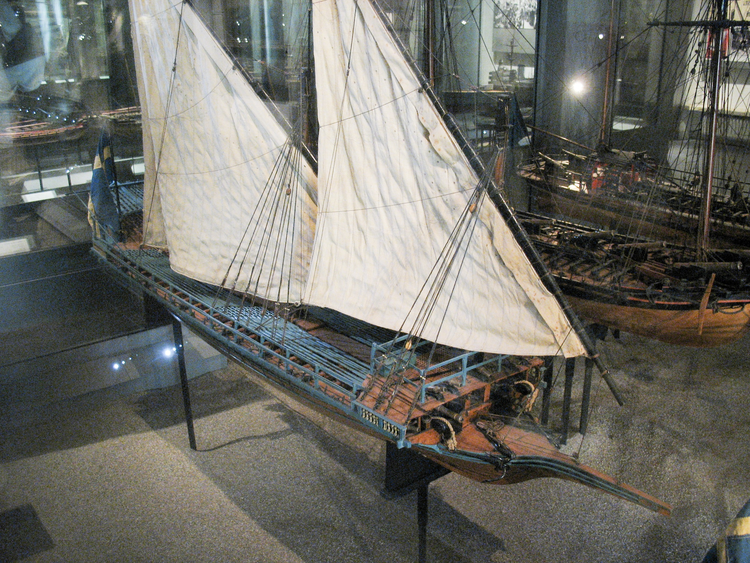 Contemporary model a Swedish galley of 1749 at the Maritime Museum in Stockholm. Scale 1:24.